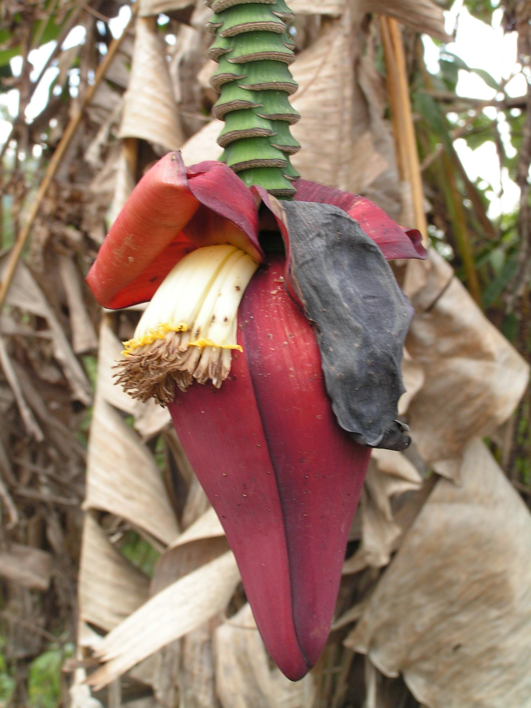 Banana tree flower